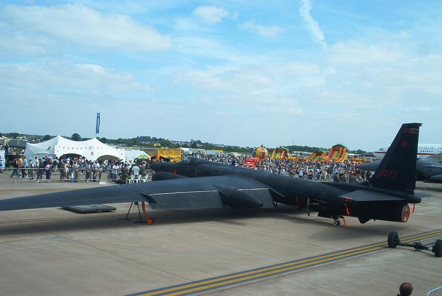 Lockheed U-2 at the Royal International Air Tattoo, RAF Fairford 2005.